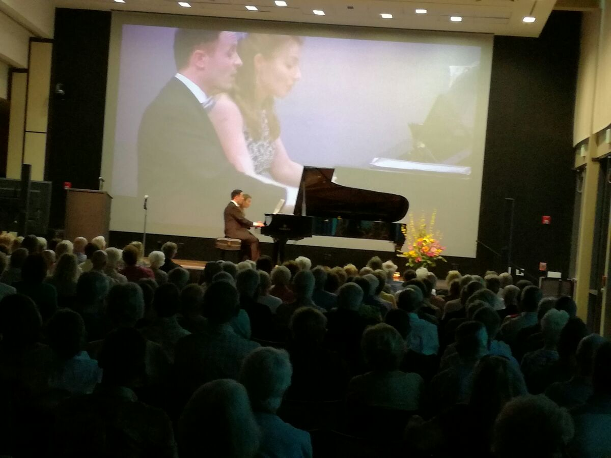 The Latsos Piano Duo, (husband Giorgi Latso-Latsabidze and wife Anna Fedorova-Latso) performing for Rancho Mirage Public Library Events/ International Classical Concerts in California.